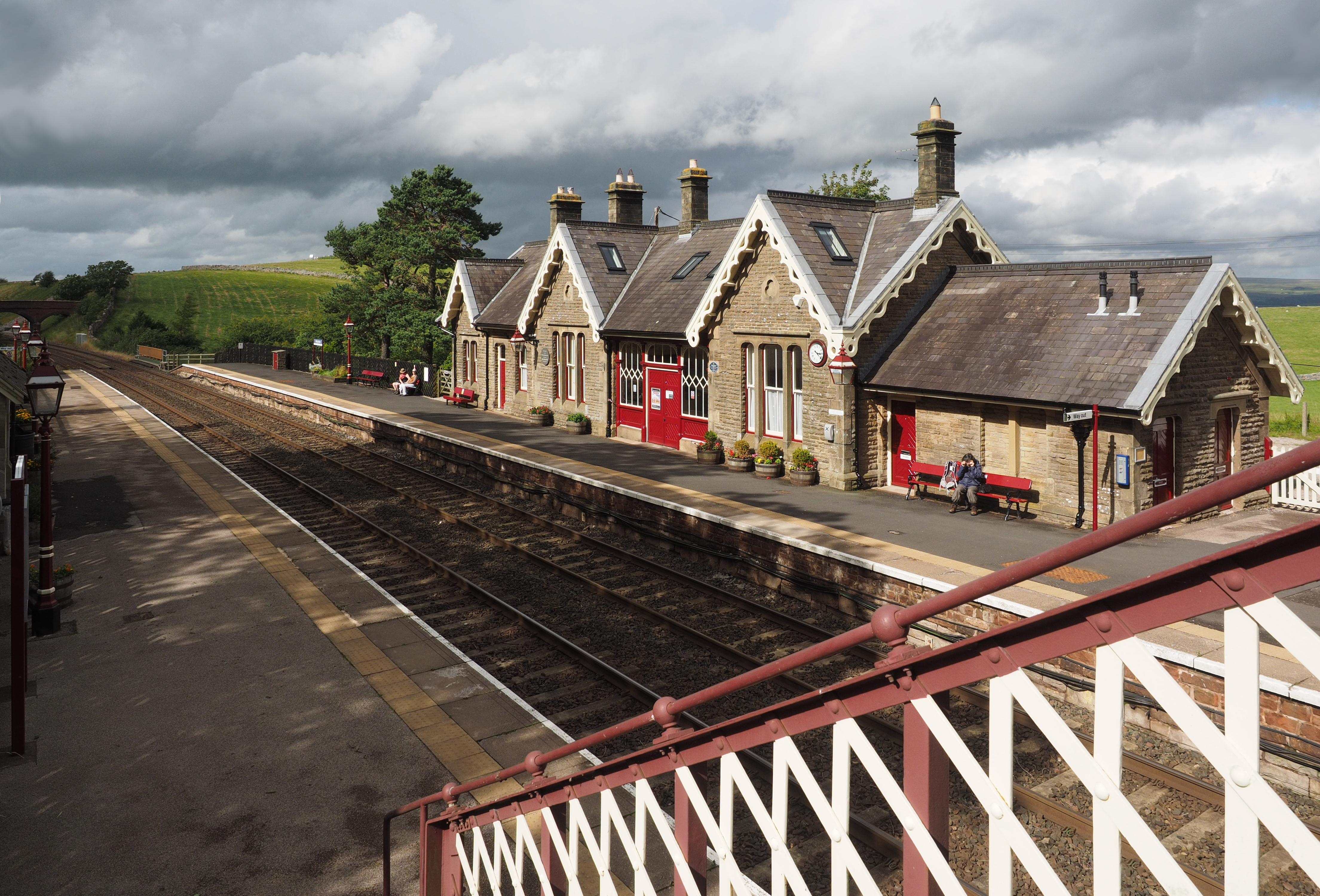 Kirkby Stephen station, Cumbria